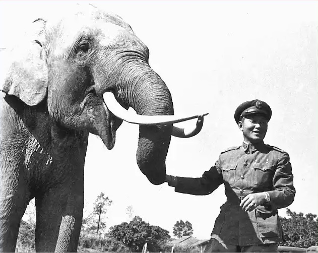 Lin Wang and Sun Li-jen